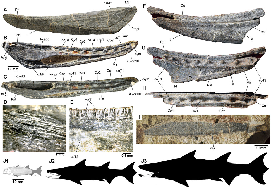 Fossils of Megamastax amblyodus. (A–E) Holotype mandible (IVPP V18499.1) in (A) lateral, (B) lingular, and (C) dorsal views; close-up of prearticular bone, showing surface ridges (D), and close-up of the marginal dentition in lingual view (E). (F–H) Partial mandible (V18499.2) in (F) lateral, (G) lingular, and (H) dorsal views. (I) Right maxilla (V18499.3) in lateral view. (J) Reconstruction of (J1) Guiyu oneiros alongside hypothetical silhouettes of (J2–3) Megamastax with superimposed fossil outlines (drawn by B.C.). The (J2) smaller fish is based on the V18499.1 and V18499.3, the (J3) larger on V.18499.2. ar.psym, knob-like parasymphysial structure; Co 1–4, coronoids 1–4; coT 1–8, coronoid teeth 1–8; De, dentary; fo.add, adductor fossa; fo.gl, glenoid fossa; fo.Mk, Meckelian foramen; Id, infradentary; mpl, mandibular pit line; maT, marginal teeth; oaMx, overlap area for maxilla and quadratojugal; Pat, prearticular; sym, area for parasymphysial plate; tr, indented track bordering splenial.